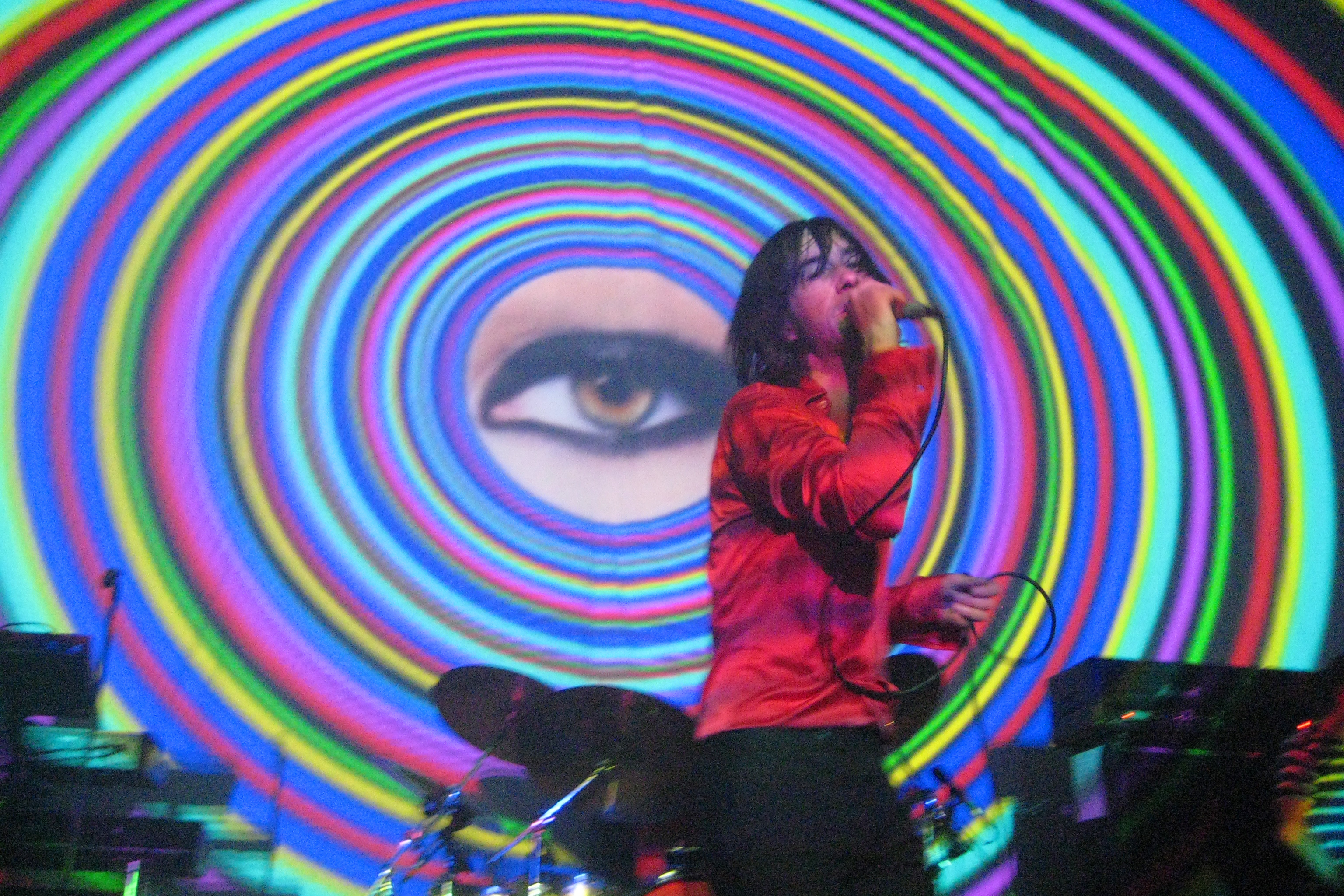 The background was continuously zooming, with the pupil spawning a brand new circle of colors.